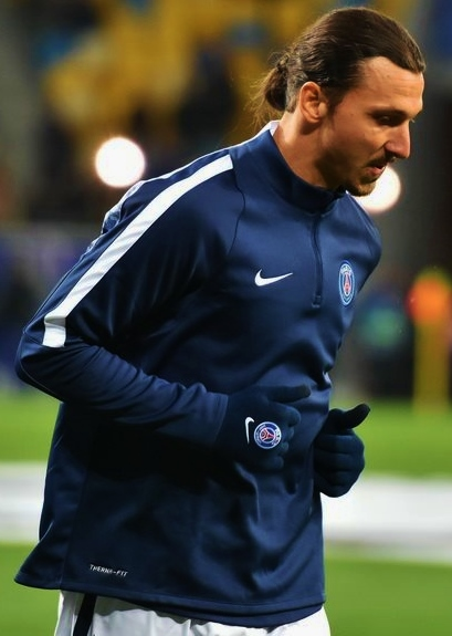 Zlatan Ibrahimović